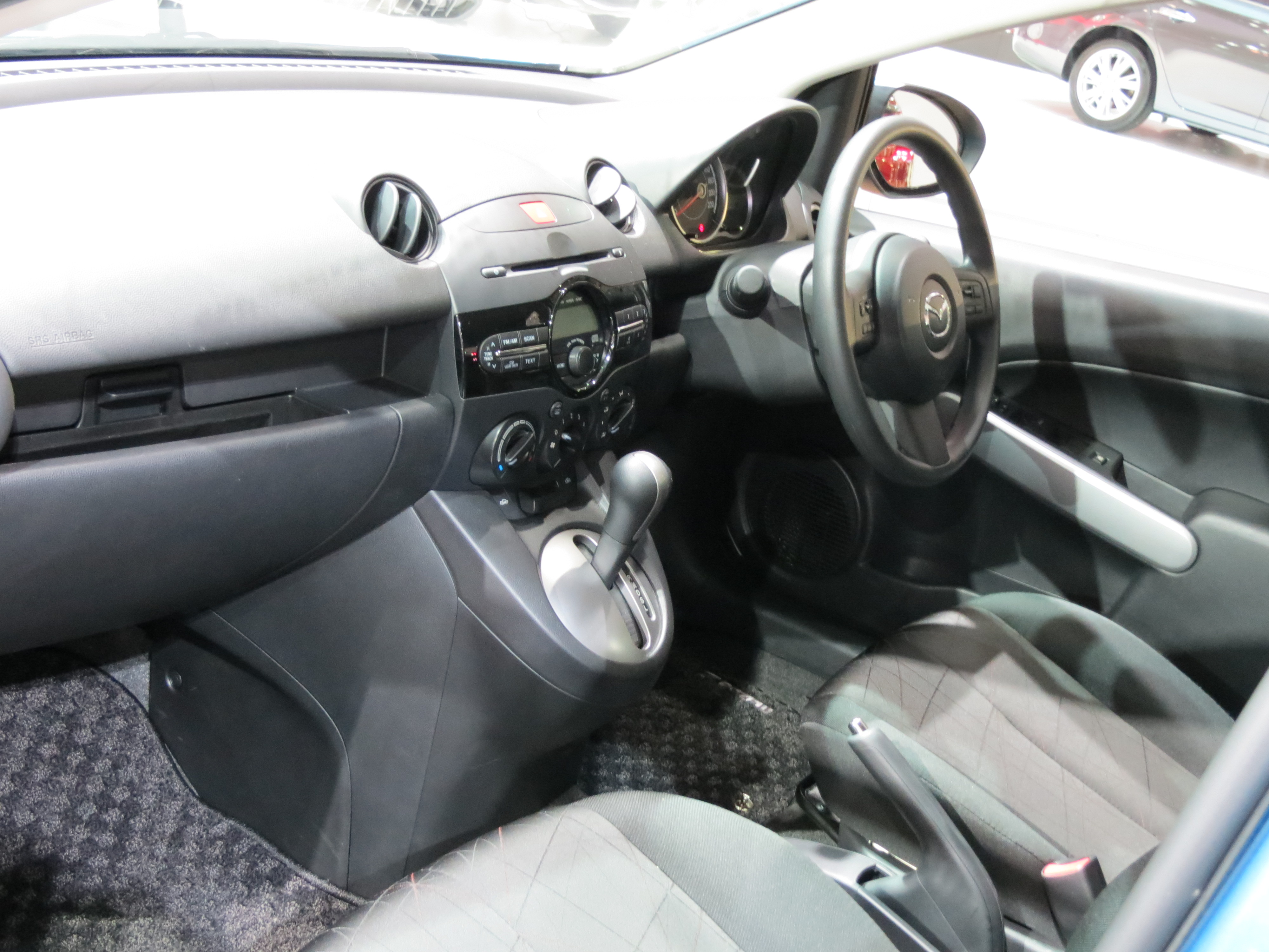 2012 Mazda2 (DE Series 2 MY13) Neo 5-door hatchback. Photographed at the 2012 Australian International Motor Show, Sydney, New South Wales, Australia.